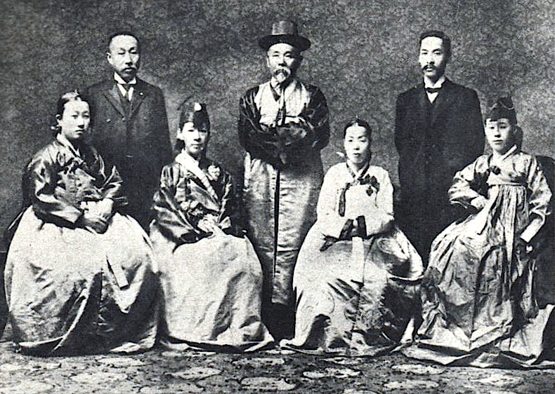 Hirobumi Ito (伊藤博文, 1841–1909, center) as Governor of Korea (1906-09), with his wife Umeko (front row, second from the left).